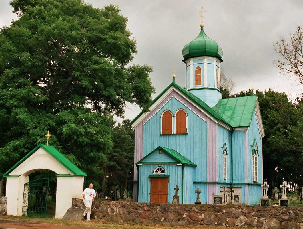 Saint George Orthodox church in Ryboły